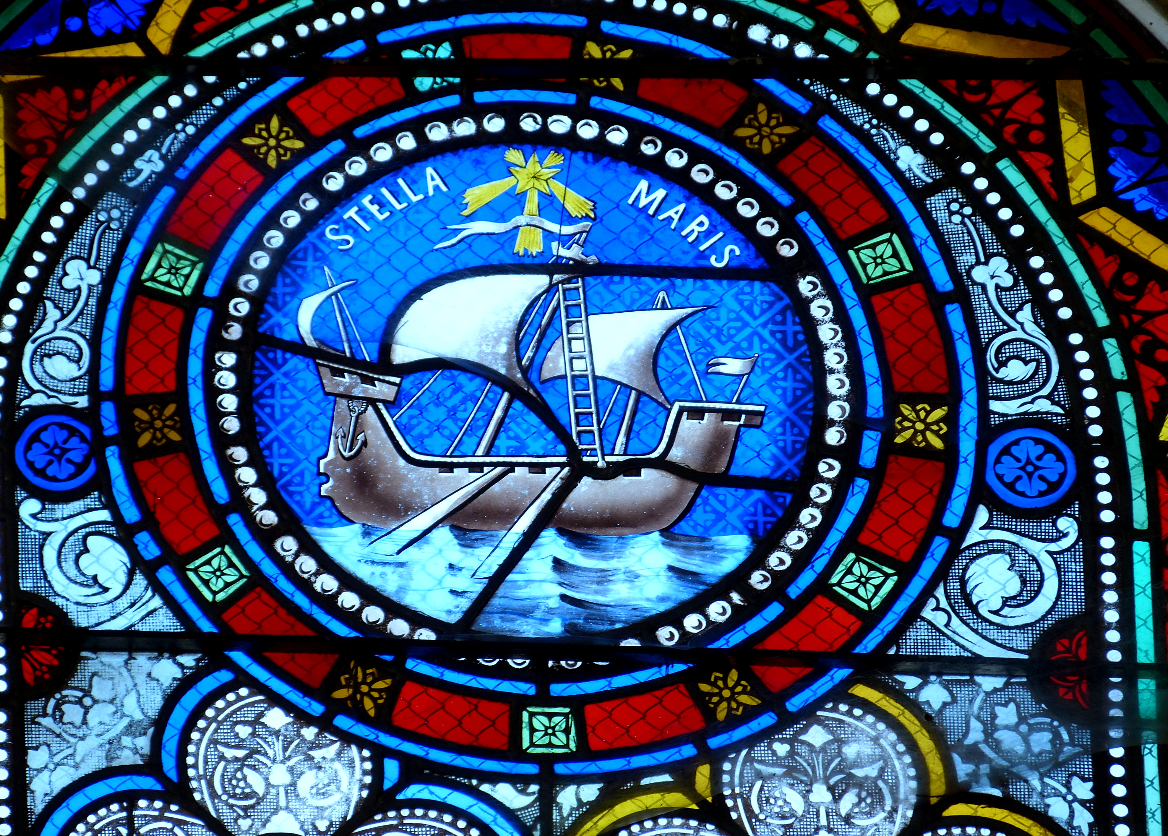 Cénac-et-Saint-Julien ( Dordogne ). Église Notre-Dame de la Nativité - Stained glass window dedicated to Our Lady, Star of the Sea